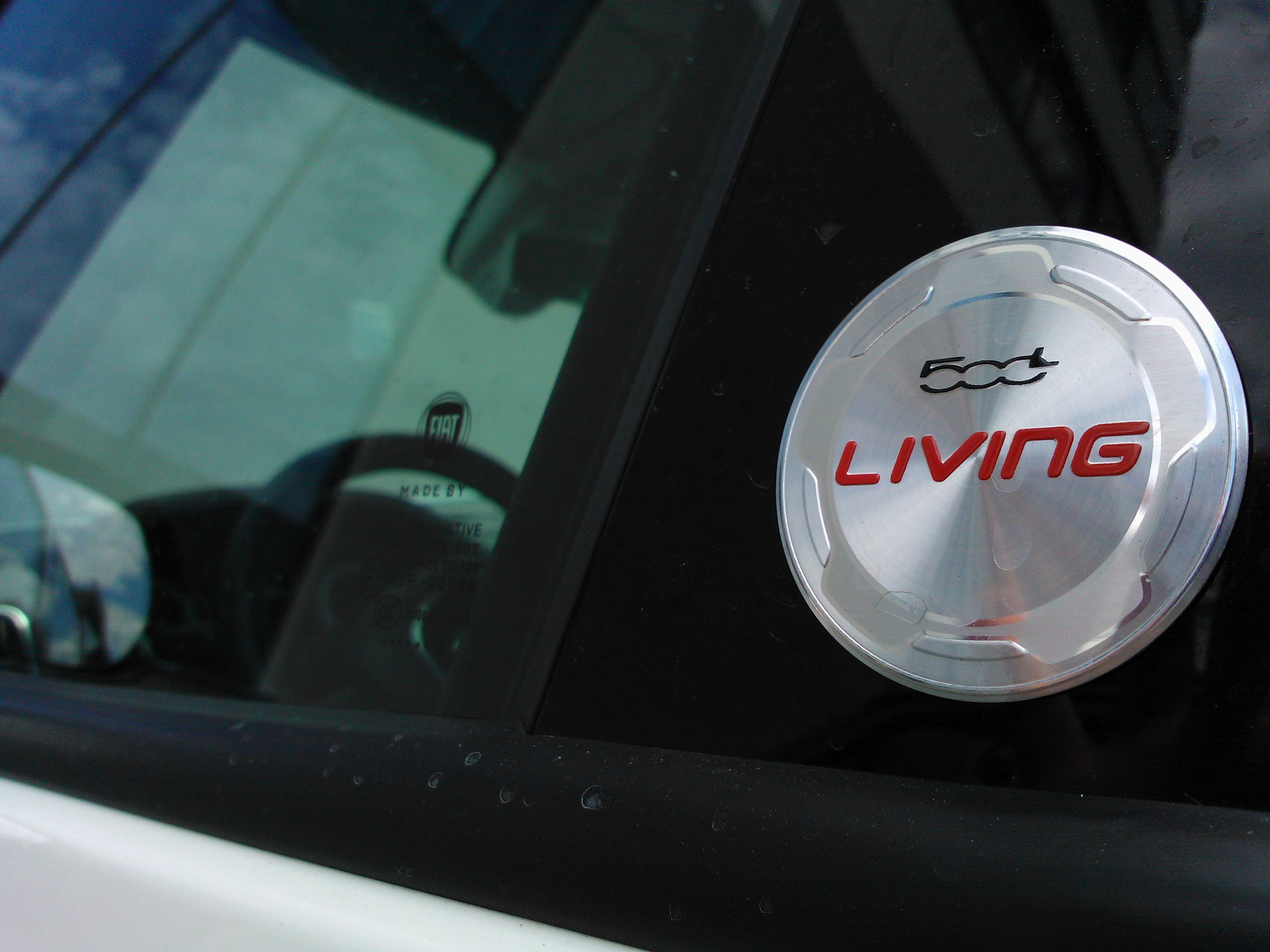 Fiat 500L Living badge